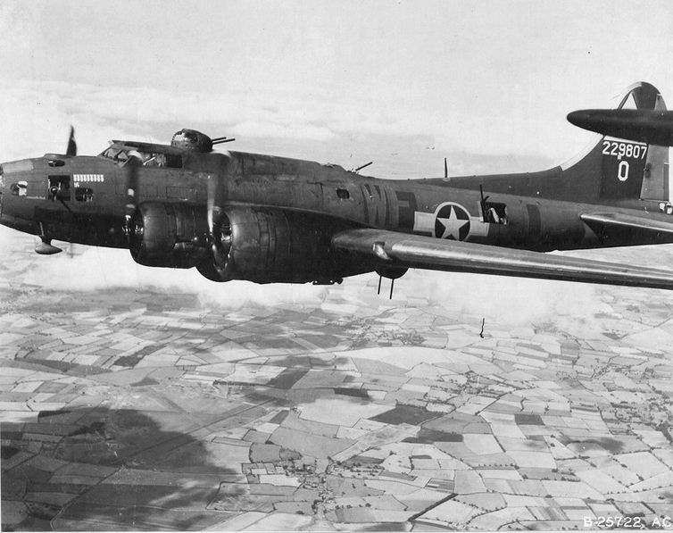 The "Lady Liberty" Boeing Boeing B-17 Flying Fortress Flying Fortress s/n 42-29807 364th BS, 305th BG, 8th AF. Originally assigned to the 334th BS, 95th BG, 8th AF and named "Patsy Ann III". Shot down by Obstlt. Josef Priller in an Focke-Wulf Fw 190 A6 from JG/26 and crashed into Westerschelde off Vlissingen,Netherlands on August 19,1943. 8 KIA, 2 POW (MACR 304).